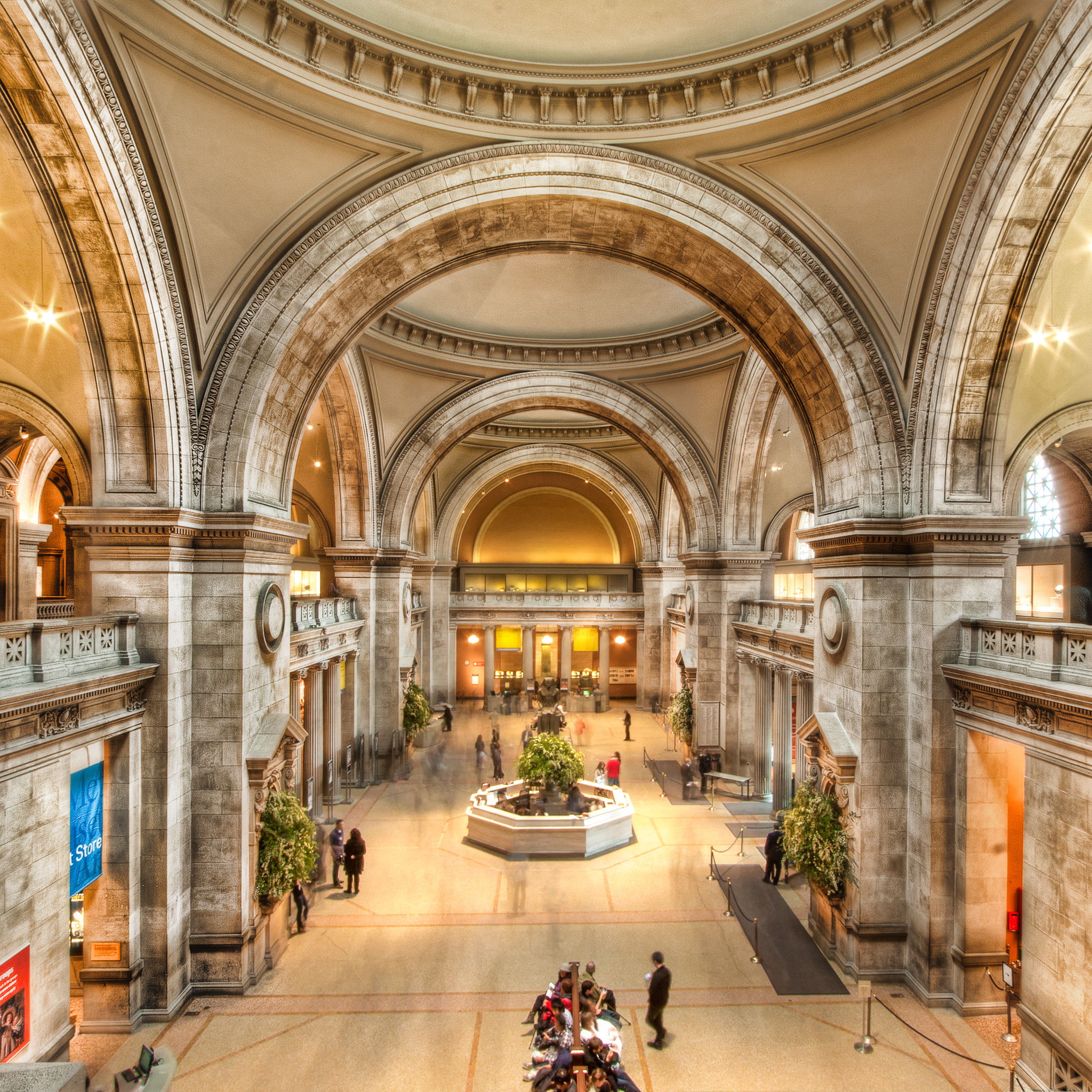 The Metropolitan Museum of Art main lobby